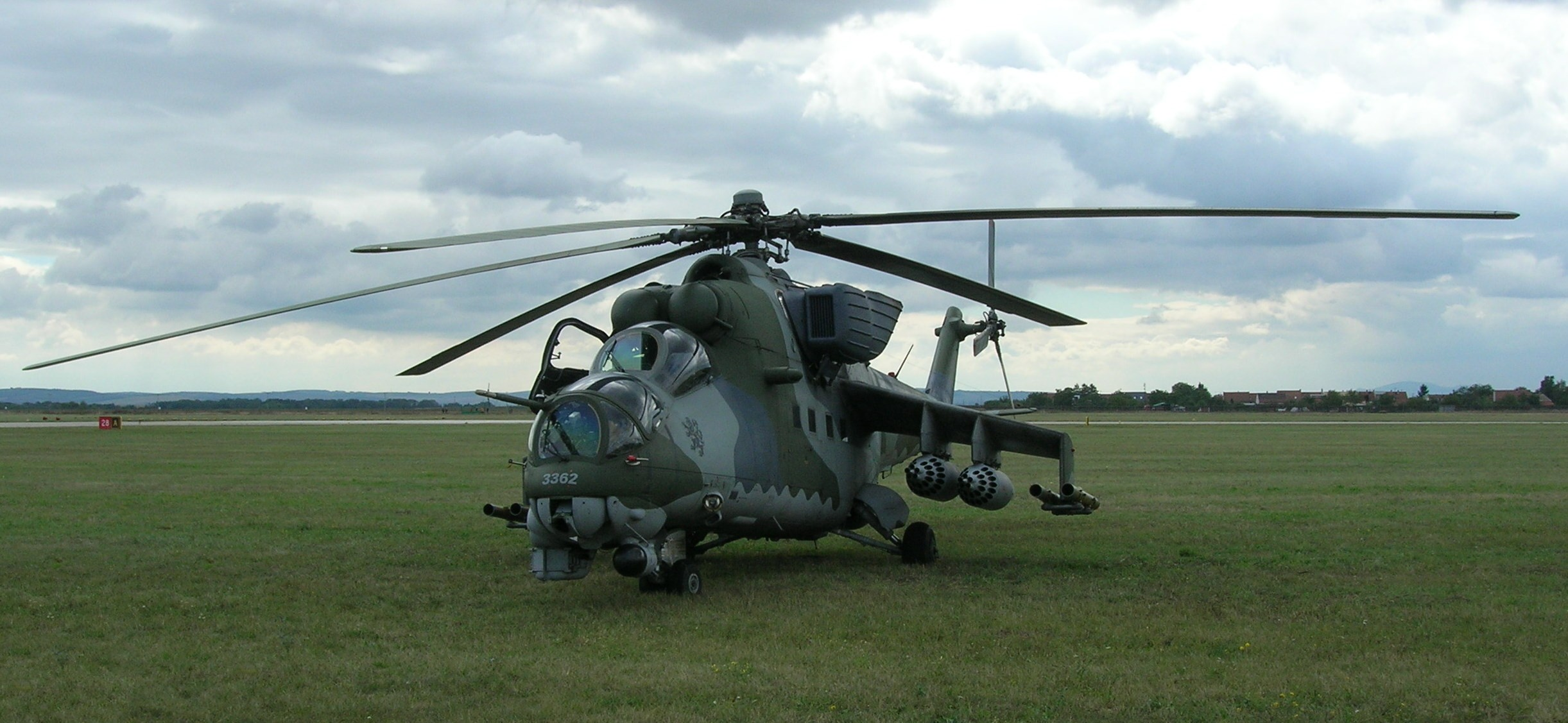 Czech Air Force Mi-24 Hind (#3362). Photo taken during CIAF 2007, Brno.